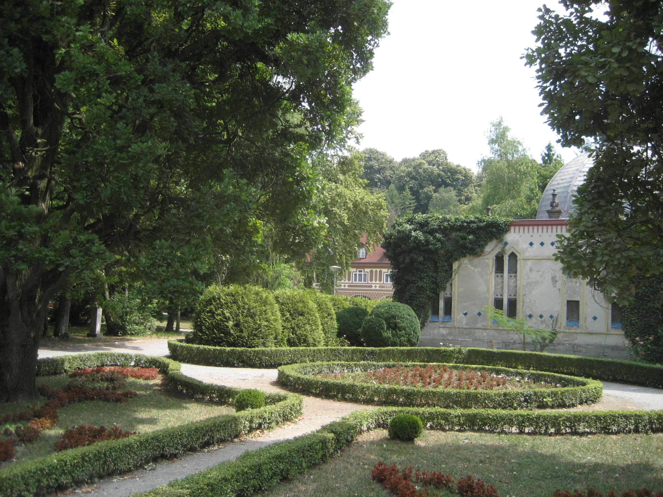 Park in the Daruvarske Tolpice, Croatia